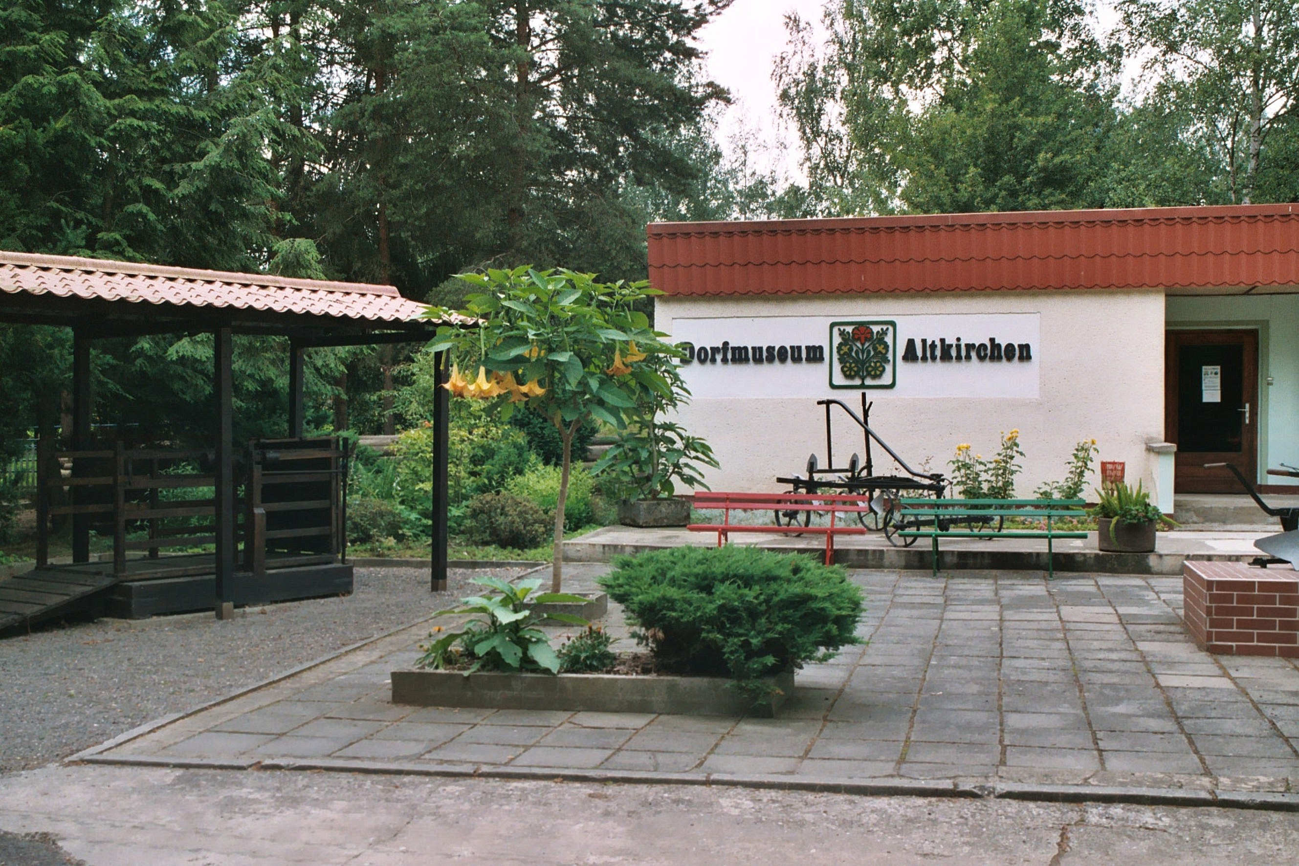 Altkirchen (Altenburger Land), the village museum, shot in 2003